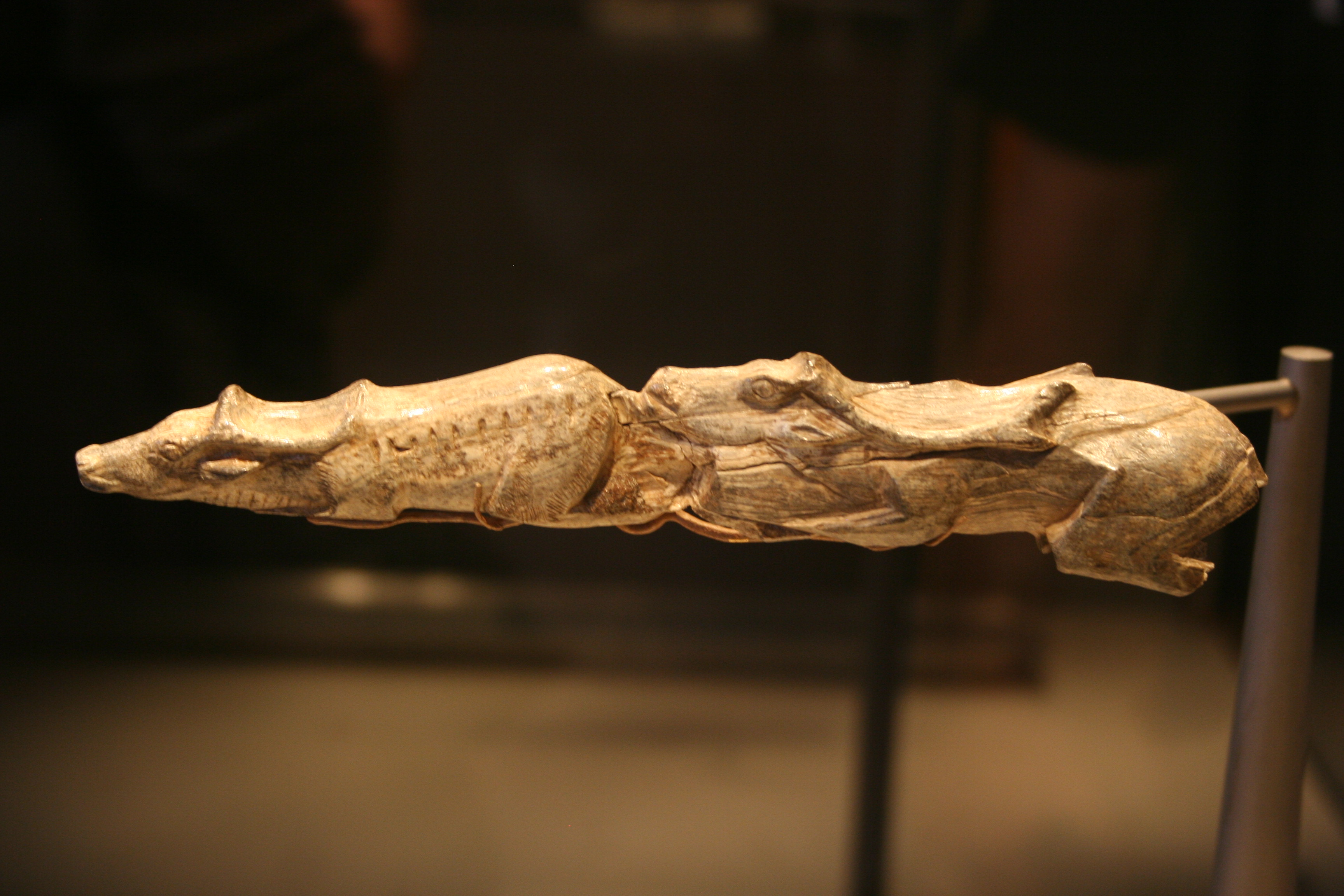 Carved bones from the GLAM event at the British Museum's Ice Age exhibit.